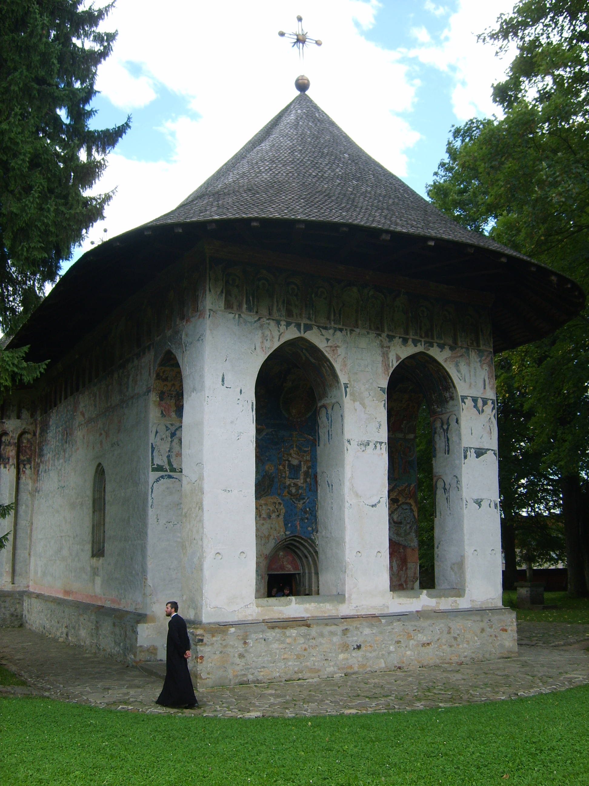 The Humor Monastery